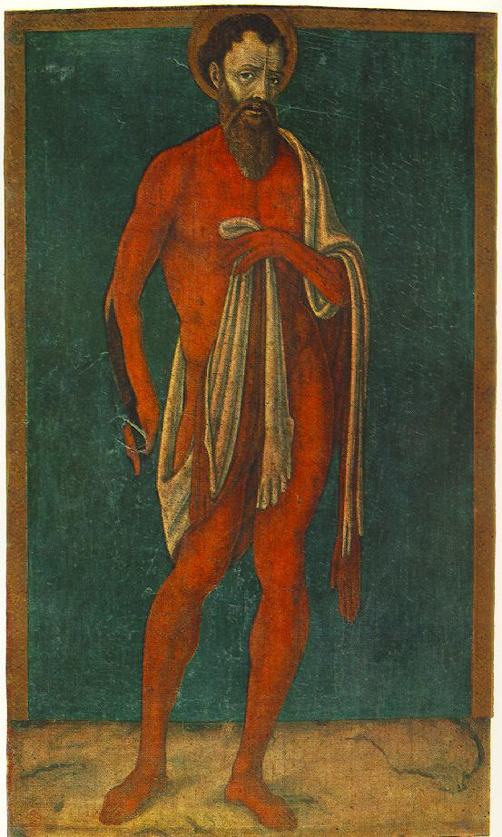 The Apostle St Bartholomew